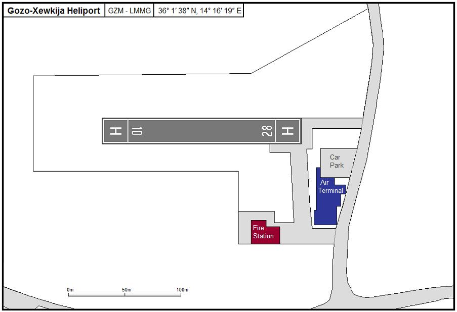 Map of Gozo-Hewkija Heliport.